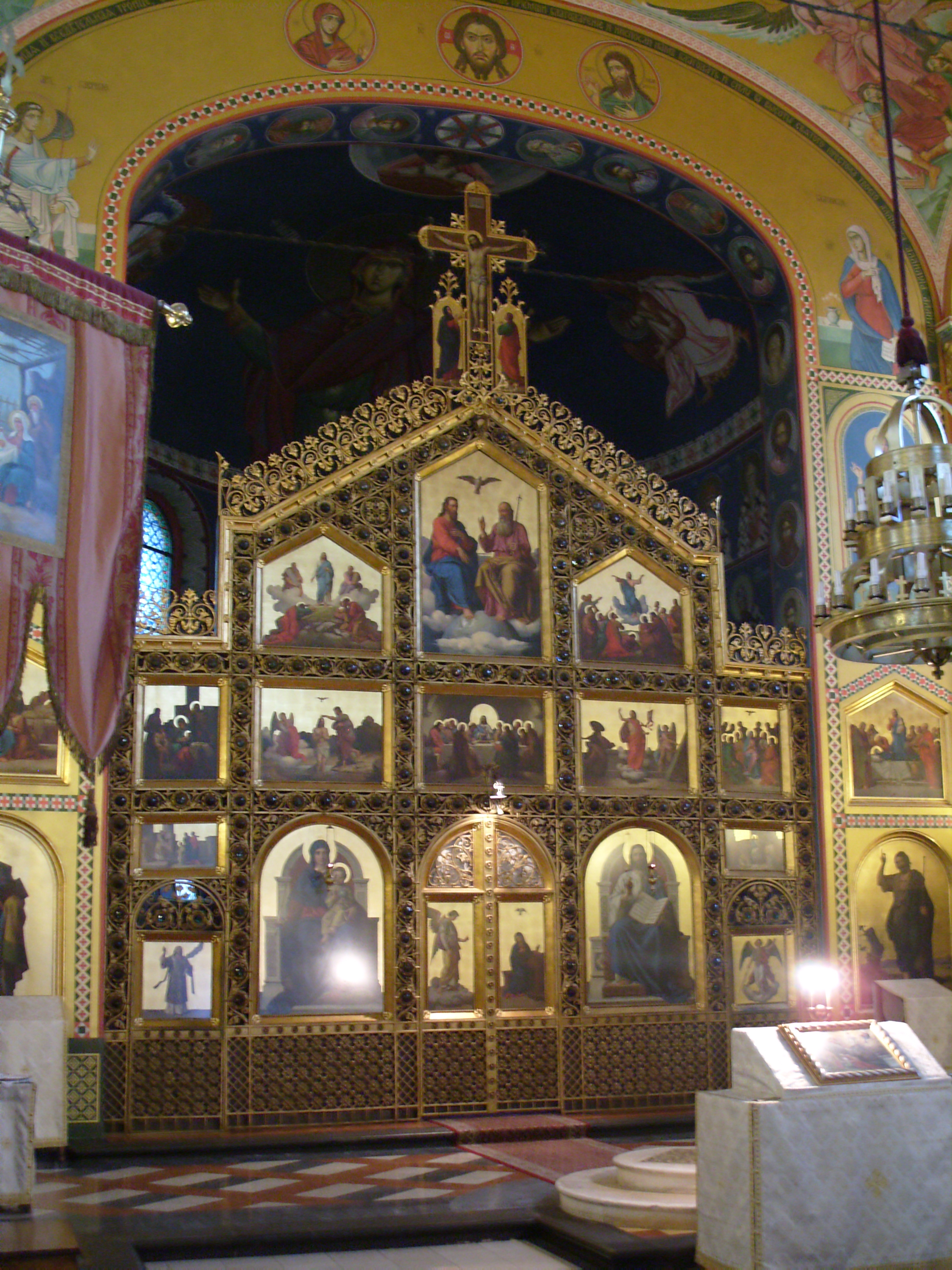 Inside the Orthodox Church in Zagreb.